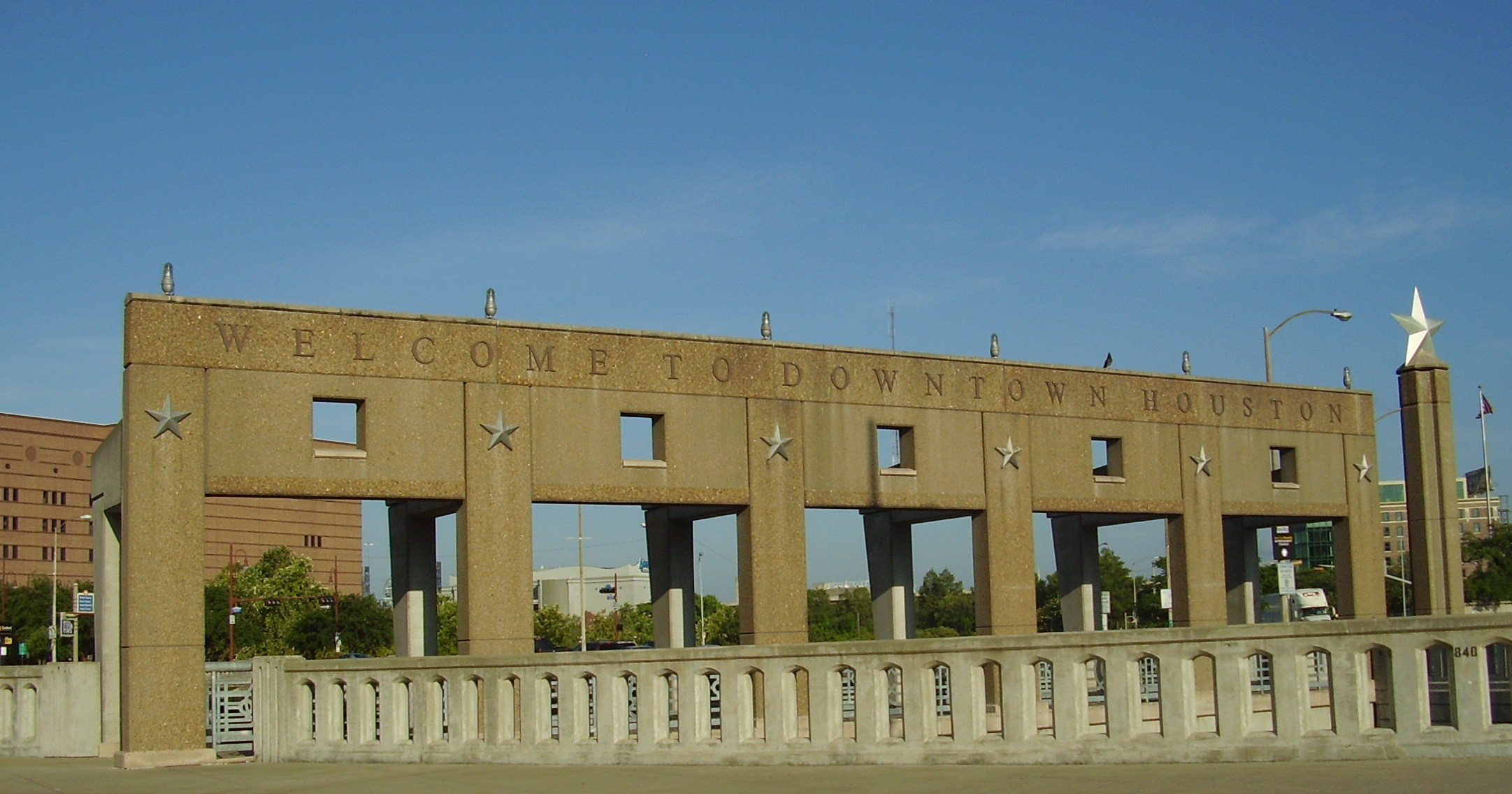 Sign for Downtown Houston